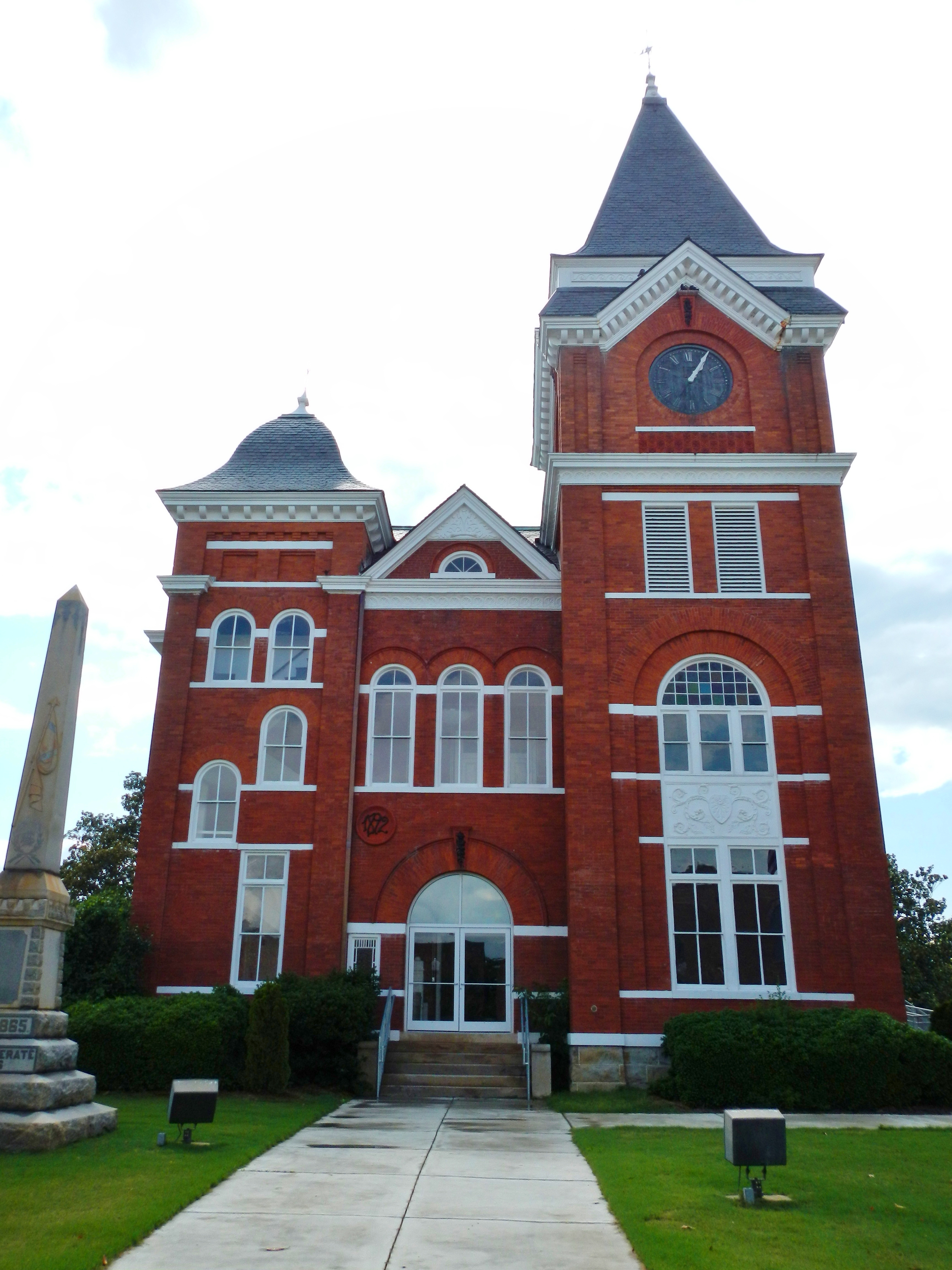 This is a photo of the Talbot County Courthouse in Talbotton, GA.